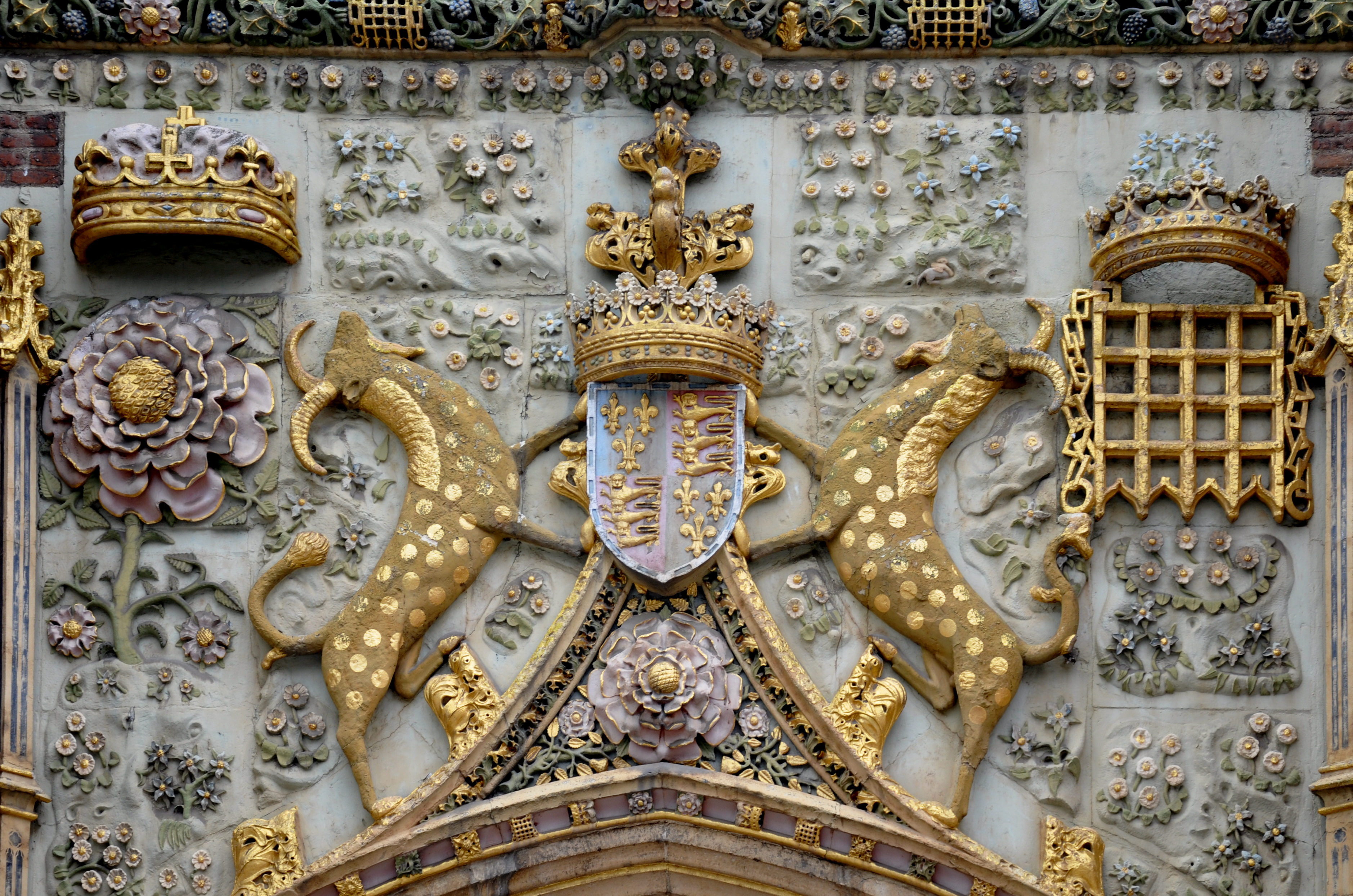 Cambridge (England), St. John's College, Main Gate, detail. Arms of St. John's College, Cambridge, being arms of Lady Margaret Beaufort, with Beaufort Yale supporters. With marguerite (daisy) emblems.